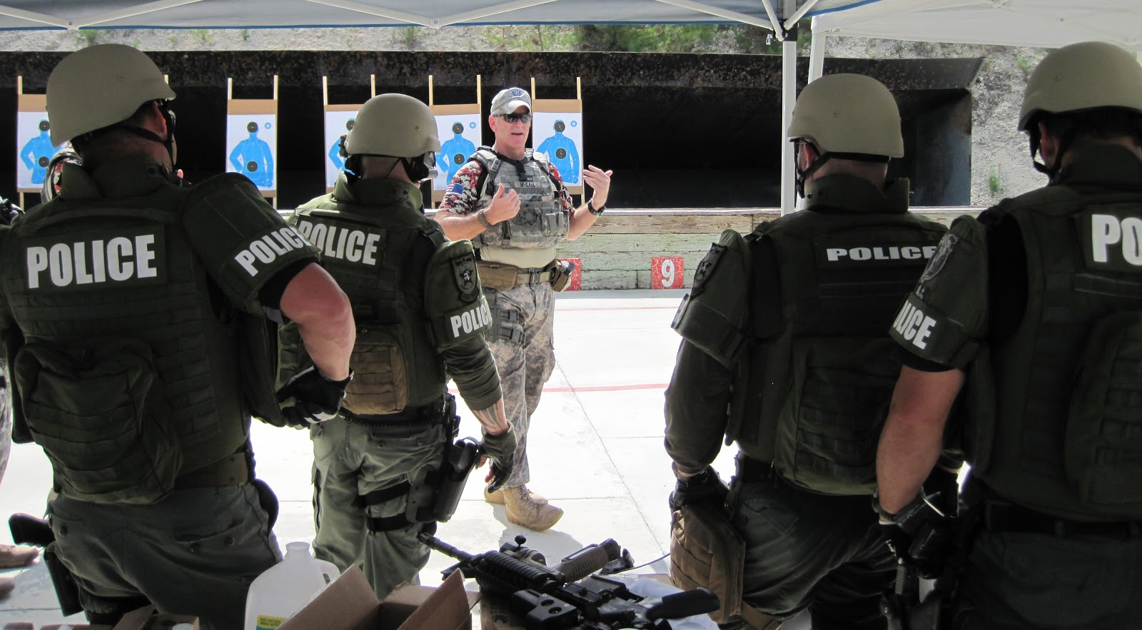 Florida Guard Counter Drug Training SWAT